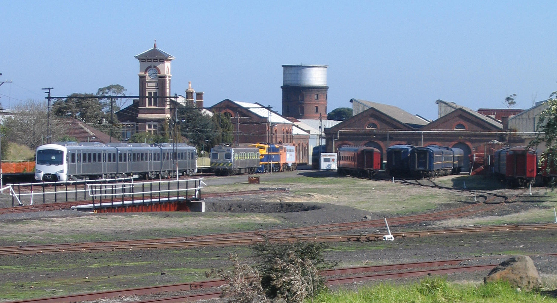 Newport Workshops, Melbourne, Australia. Stabled Siemens train, and a mix of Steamrail heritage stock.